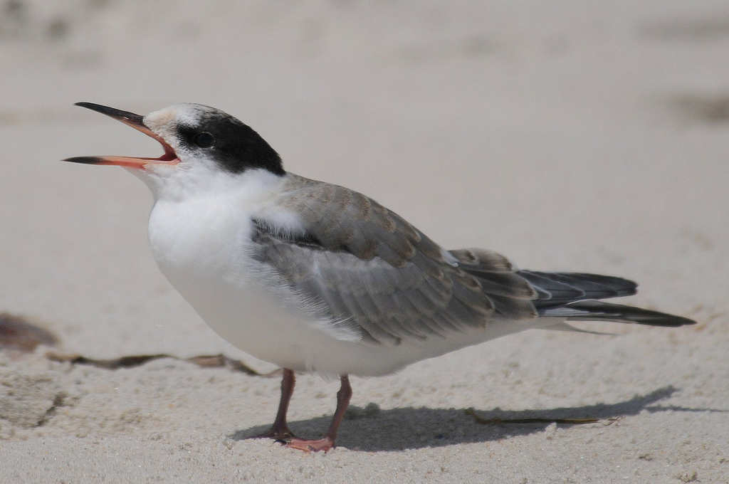 An immature Common Tern on Fire Island, NY, USA.